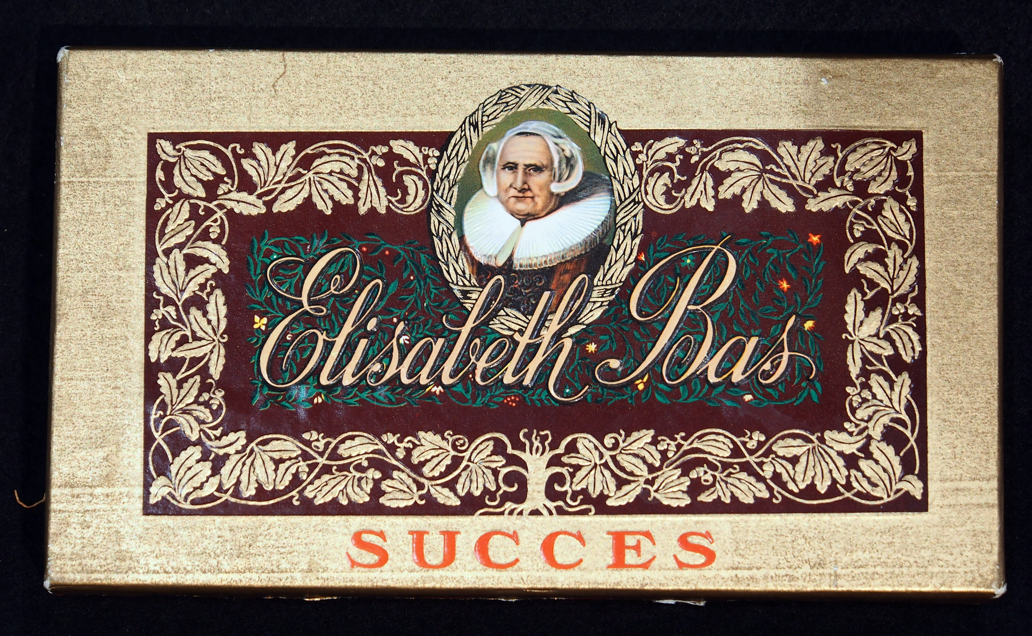 Very old packaging of a Dutch product that is not produced and/or not sold any more.